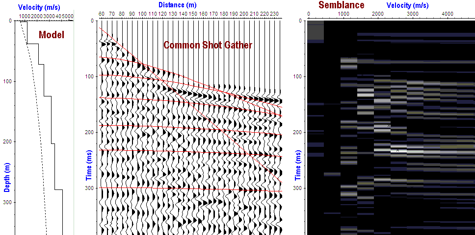 Shallow Rfx-Velocity Analysis